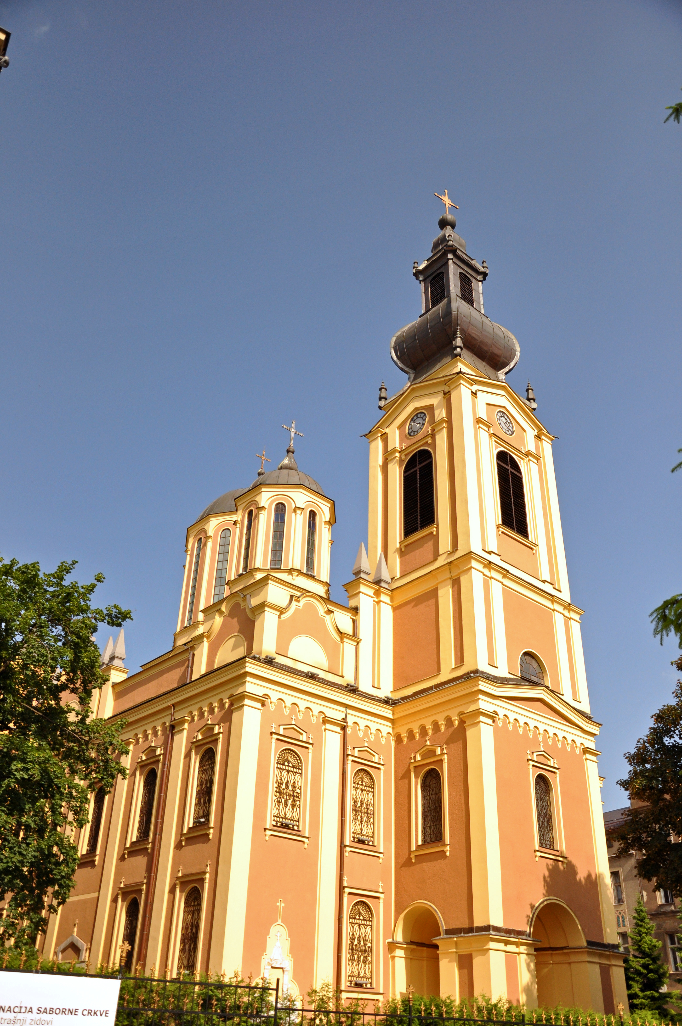 The Church of the Most Holy Mother of God was built between 1863-1874 and contains large iconostases holding icons made in Russia, installed here by Russian masons sent by Tsar Alexander II. As a proof of religious tolerance, Sultan Abdul Aziz and the Prince of Serbia donated 500 gold ducats towards the construction of the building. Serb forces shot up their own church during the war and the Greek government is now involved in helping restore the damage.